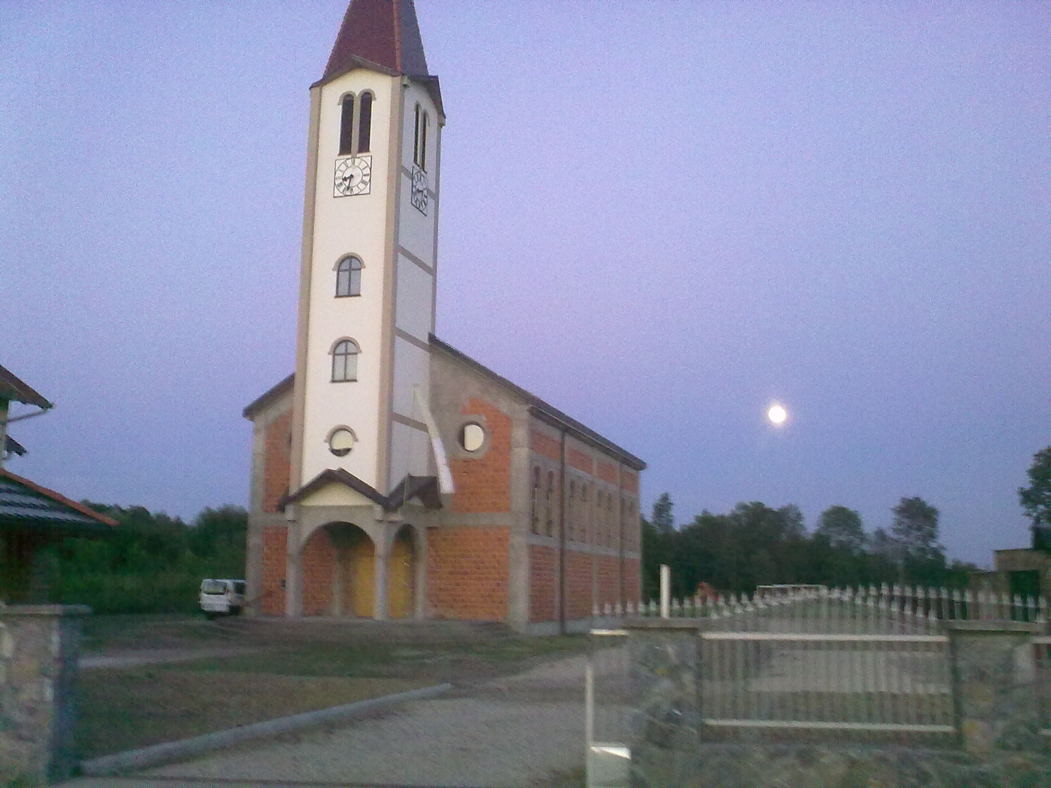 My photo taked in 2012